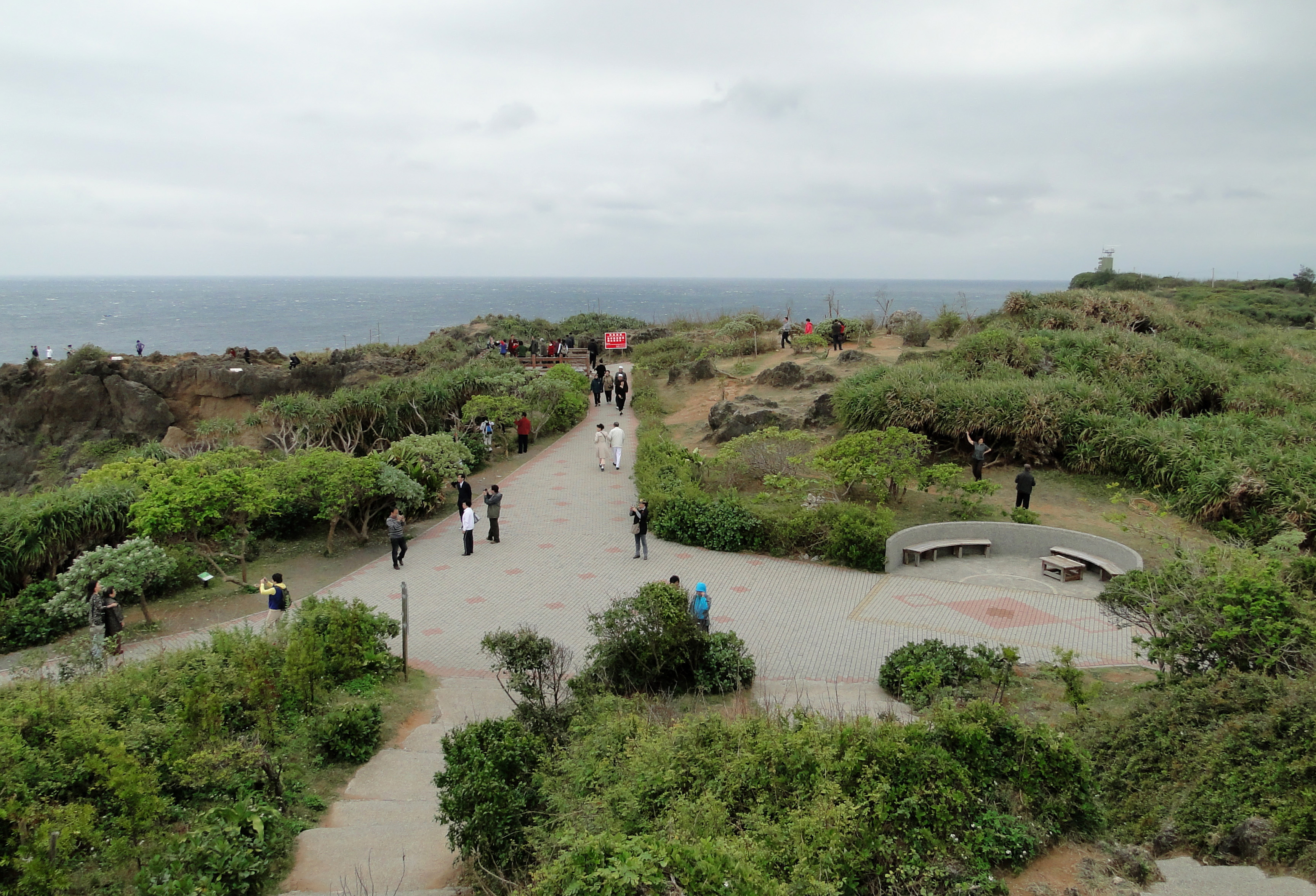 Moabitou Cape on South China Sea, Taiwan